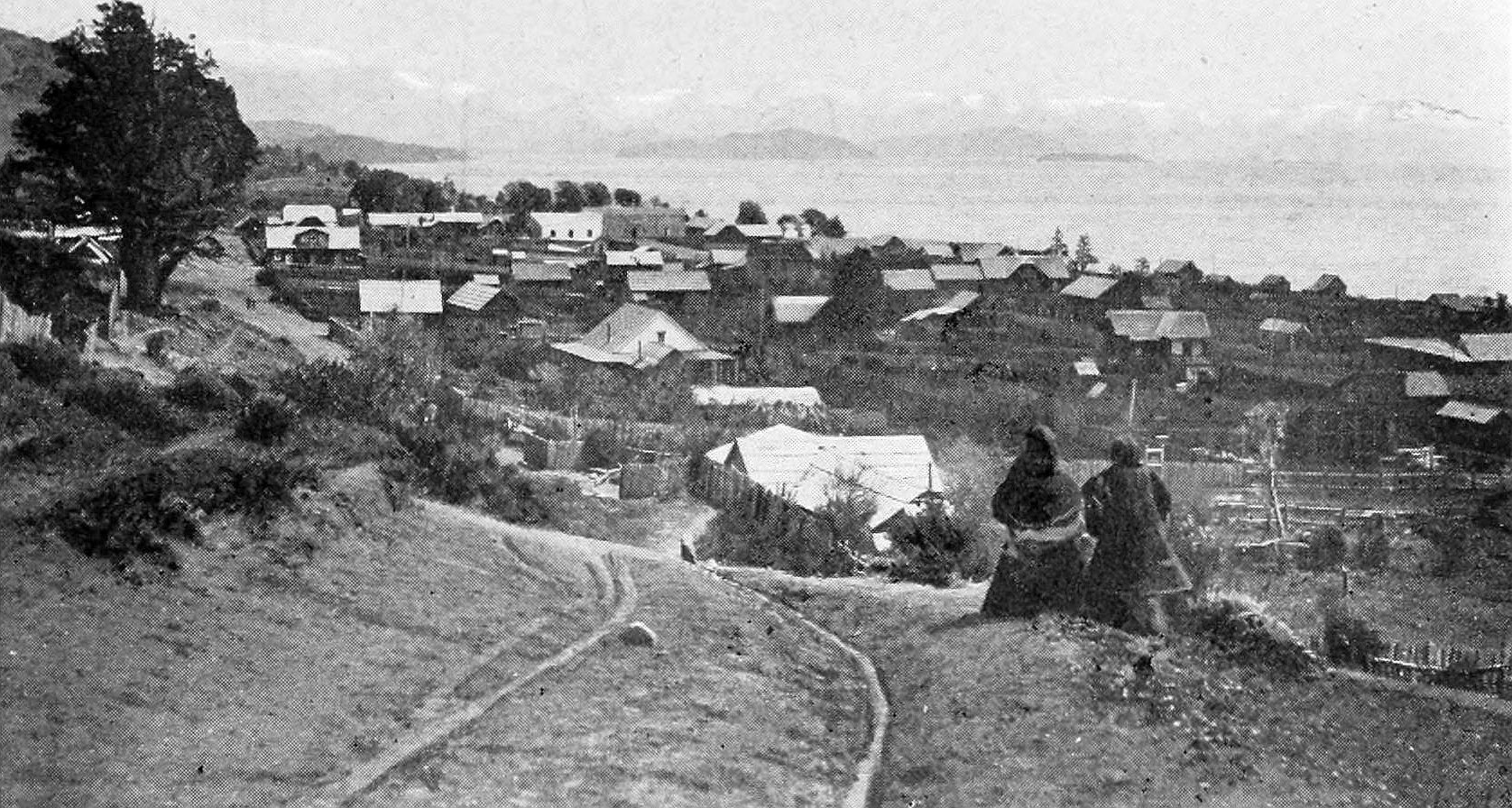 Identifier: throughsouthamer00zahmuoft Title: Through South America's southland; with an account of the Roosevelt Scientific Expedition to South America Year: 1916 (1910s) Authors: Zahm, John Augustine, 1851-1921 Subjects: Roosevelt, Theodore, 1858-1919 South America -- Description and travel Publisher: New York, Appleton Text Appearing Before Image: ed in a recent work entitledModern Patagonia, issued by the Argentina Ministry of Public Works, inwhich we read * As Nahuelhuapi compares with Lake Lucerne so may Bari-loche compare with the city of Lucerne as a tourist resort. P. 416. More than this. The government of Argentina has already made plansfor a city of a hundred thousand inhabitants, which is to be located on LakeNahuelhuapi, a few miles to the northeast of Bariloche. According to its pro-jectors, this city of the future is to be reached by the new transcontinentalrailroad, already begun, which is to connect San Antonio on the Atlantic withValdivia on the Pacific. It is, if present plans be realized, to be made a greatindustrial center and to take its place, a few decades hence, among the greatcities of the Republic. Nahuelhuapi City, as this new metropolis is alreadynamed, will certainly not be without attractions. It will be * situated at theentrance to the national park, in a region of delightful summer climate, and 368 Text Appearing After Image: Bariloche and Lake Nahuelhuapi.